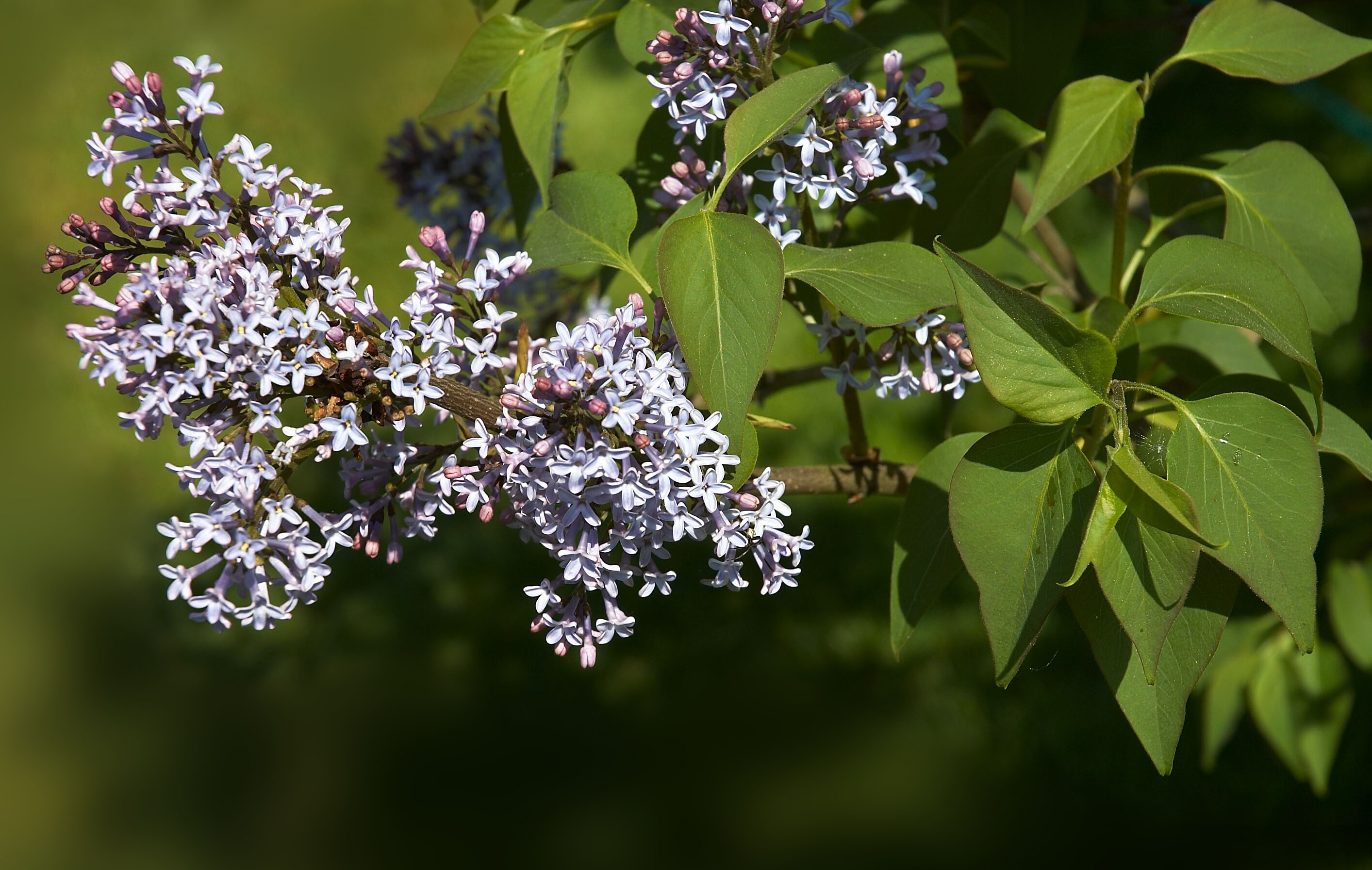 Nodding Lilac